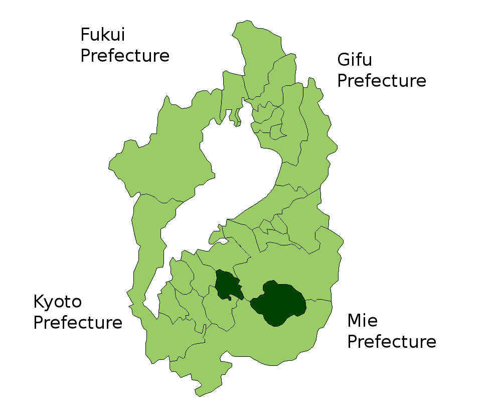 Location Map of Gamo District in Shiga Prefecture, Japan